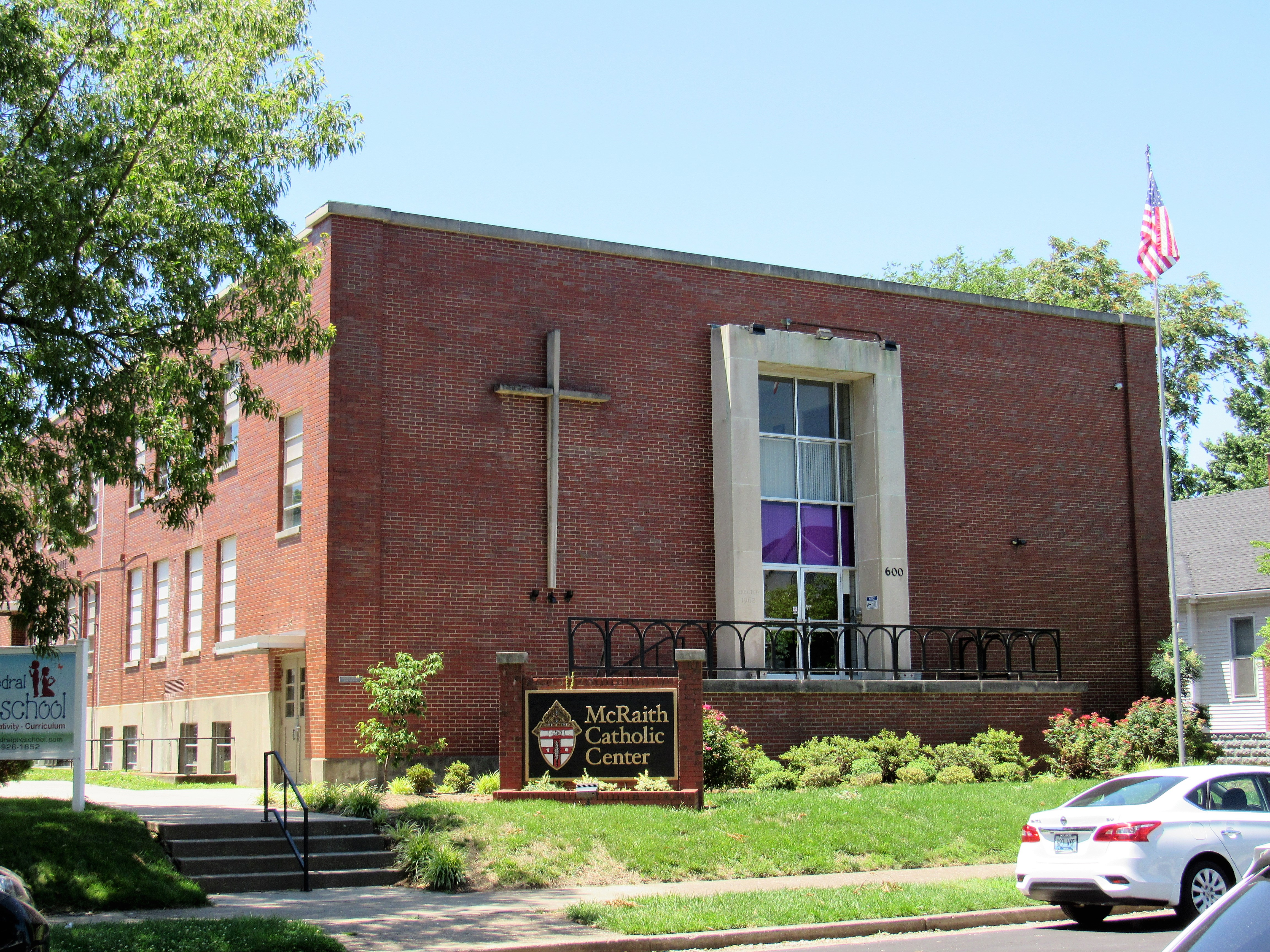 McRaith Catholic Center, the diocesan pastoral center in Owensboro, Kentucky. It also houses a pre-school sponsored by the neighboring cathedral.